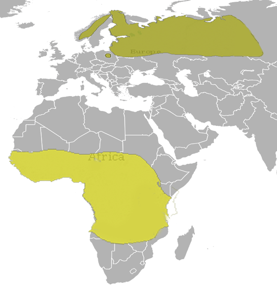 Approximativ range map for Galinago media. Breeding range in green and winter range in yellow. Based on IUCN